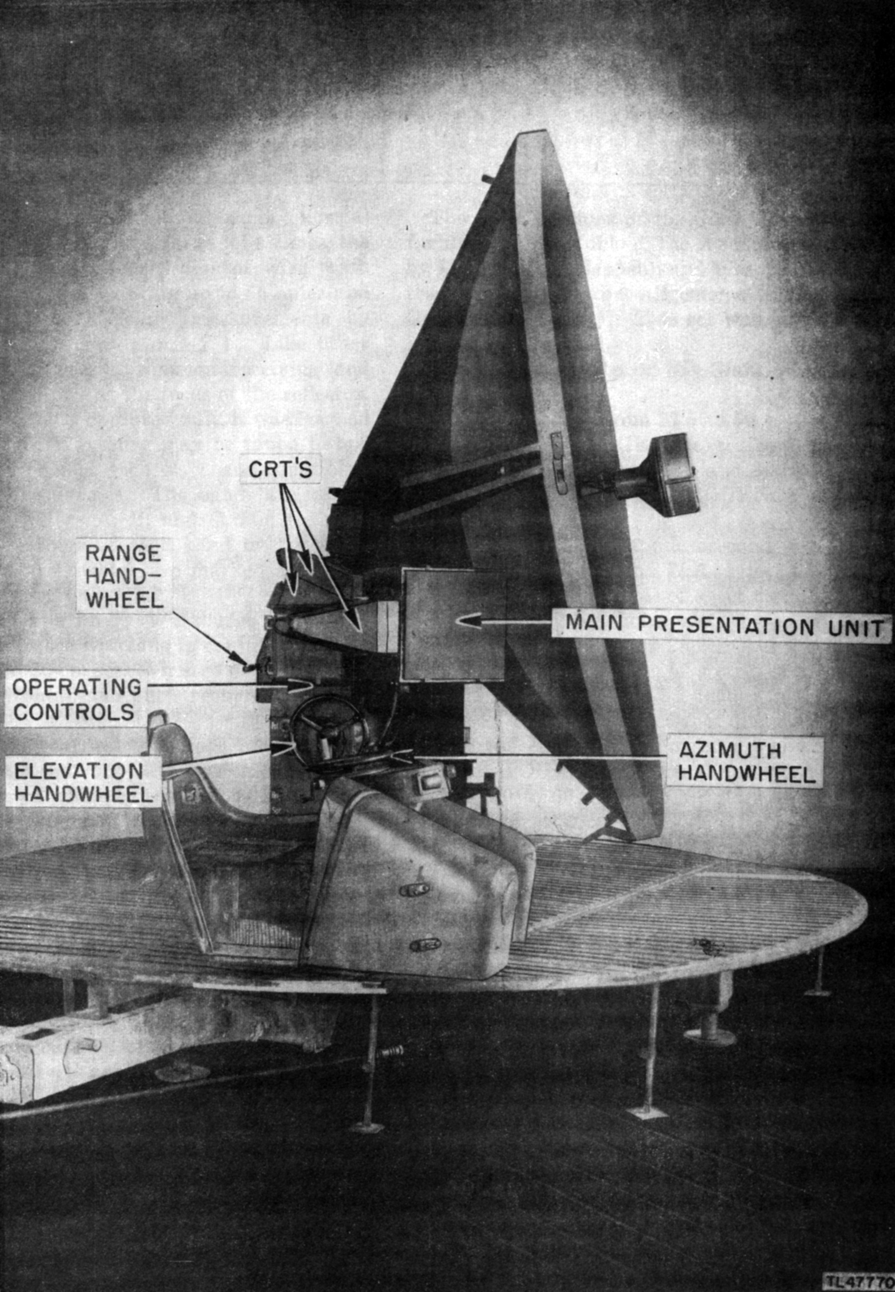 An diagram of a German World War II Wurzburg Type D Radar from TM E 11-219 "Directory of German Radar Equipment".